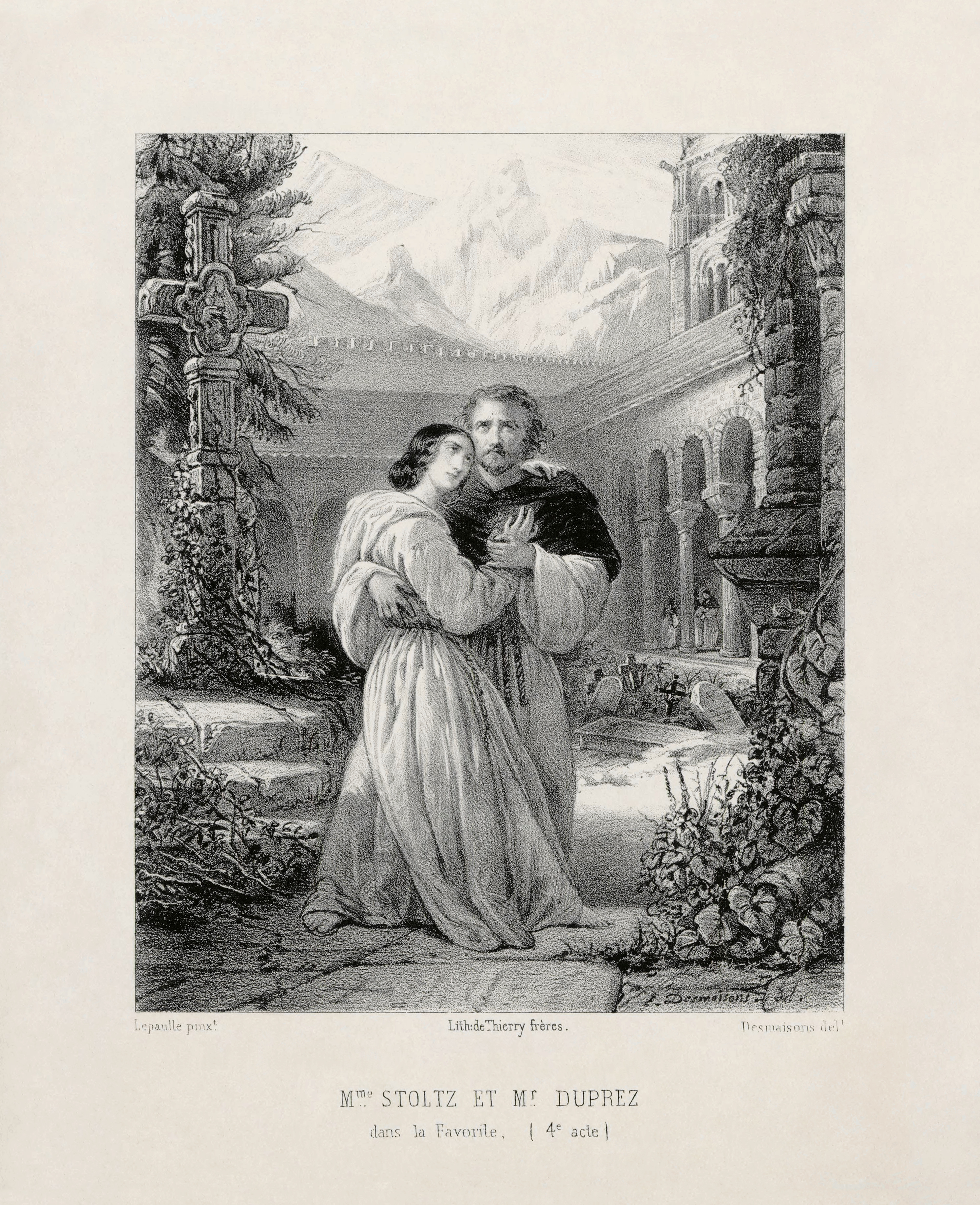 Gilbert Duprez (1806-1896) as Fernando and Rosine Stoltz (1815-1903) as Leonor de Guzmán in Act IV of Gaetano Donizetti's La Favorite at the Salle Le Peletier in Paris in 1840-1841. Lithograph by Émile Desmaisons (1812-1880) after Gabriel Lépaulle (1804-1886), frontispiece to the first edition of the vocal score (Paris: Schlesinger, 1840). Note: DO NOT CROP: Due to templates that provide on-page cropping, such as Template:CSS image crop, the borders can be cropped on the page, allowing the full version to be available, with all historic text, etc. Unfortunately, if the image is changed, every usage using these tools will break.